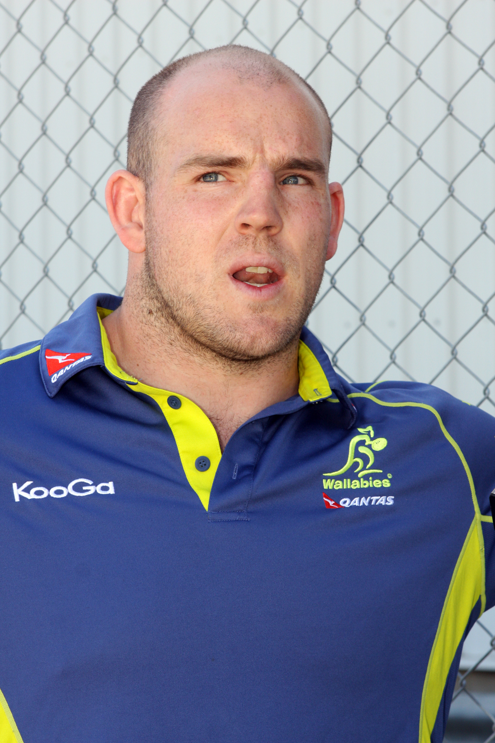 The Qantas Wallabies unveil a Boeing 737-800 aircraft sporting a giant moustache which will fly around the country for the month of November raising awareness of prostate cancer and men's mental health.